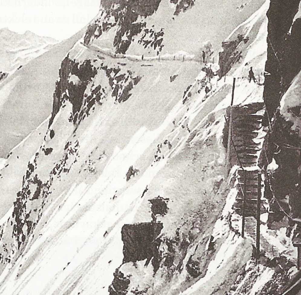 The way to the top of Königspitze